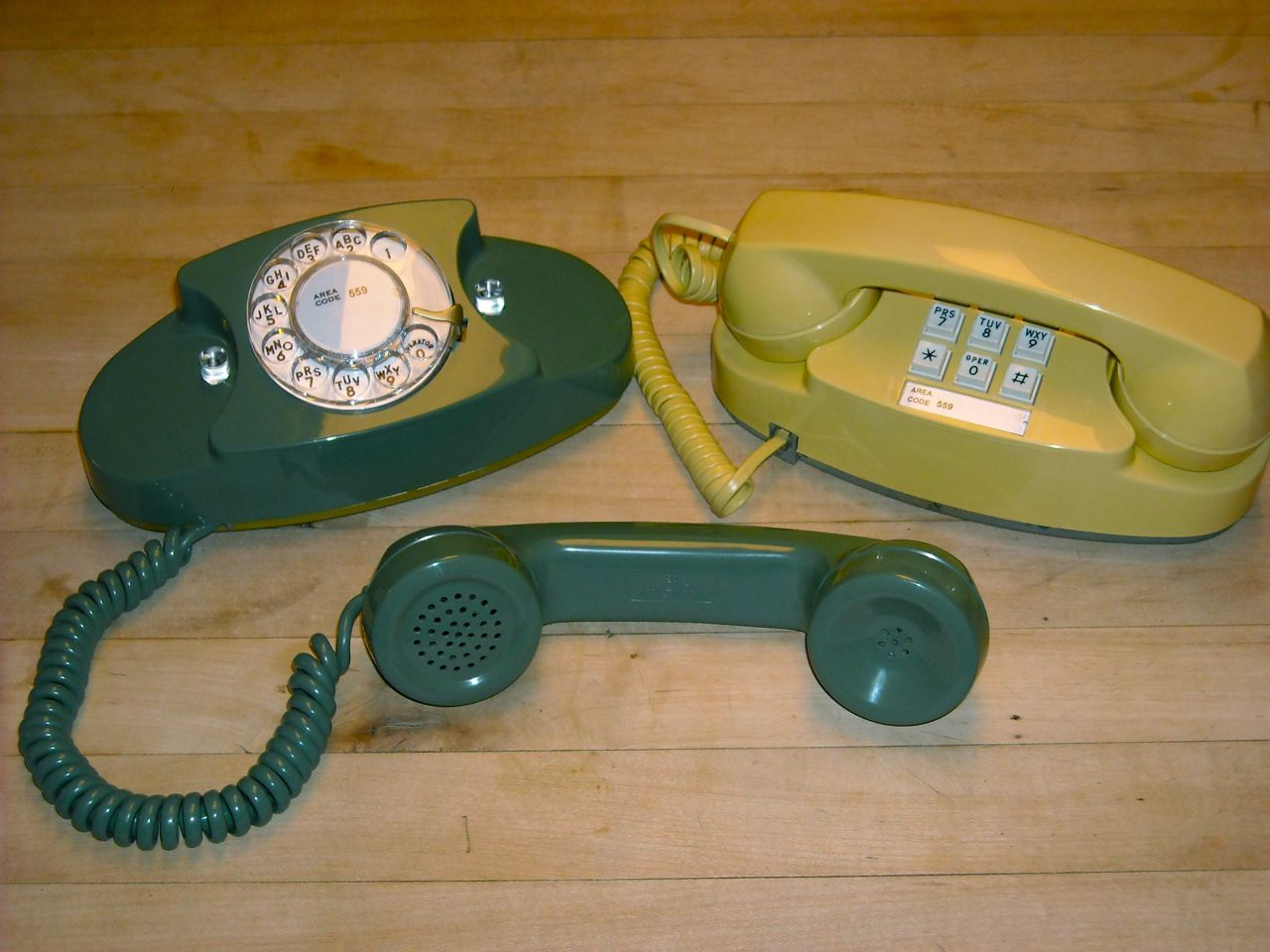 Western Electric Company Princess phones. Green one is rotary dial, has hardwired handset cord, and dated November, 1973. Yellow one is Touch Tone dial, has a modular handset cord, and dated June, 1984.